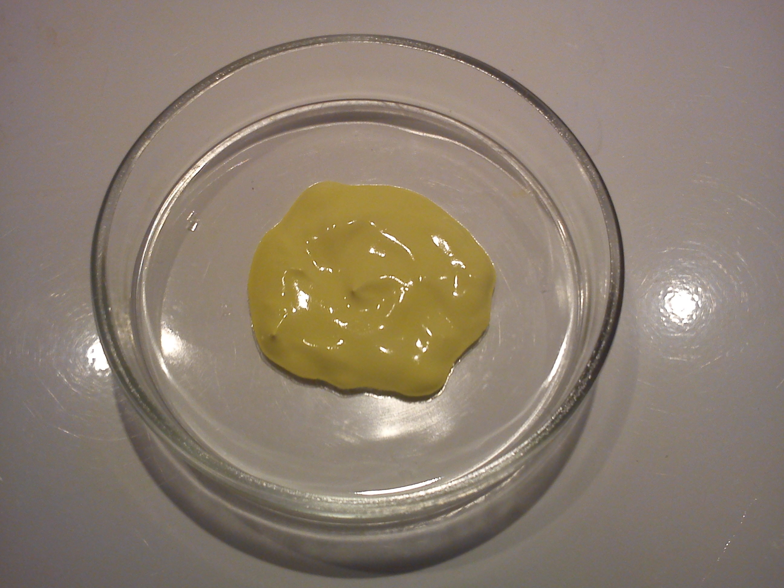 Yellow Tungstic acid